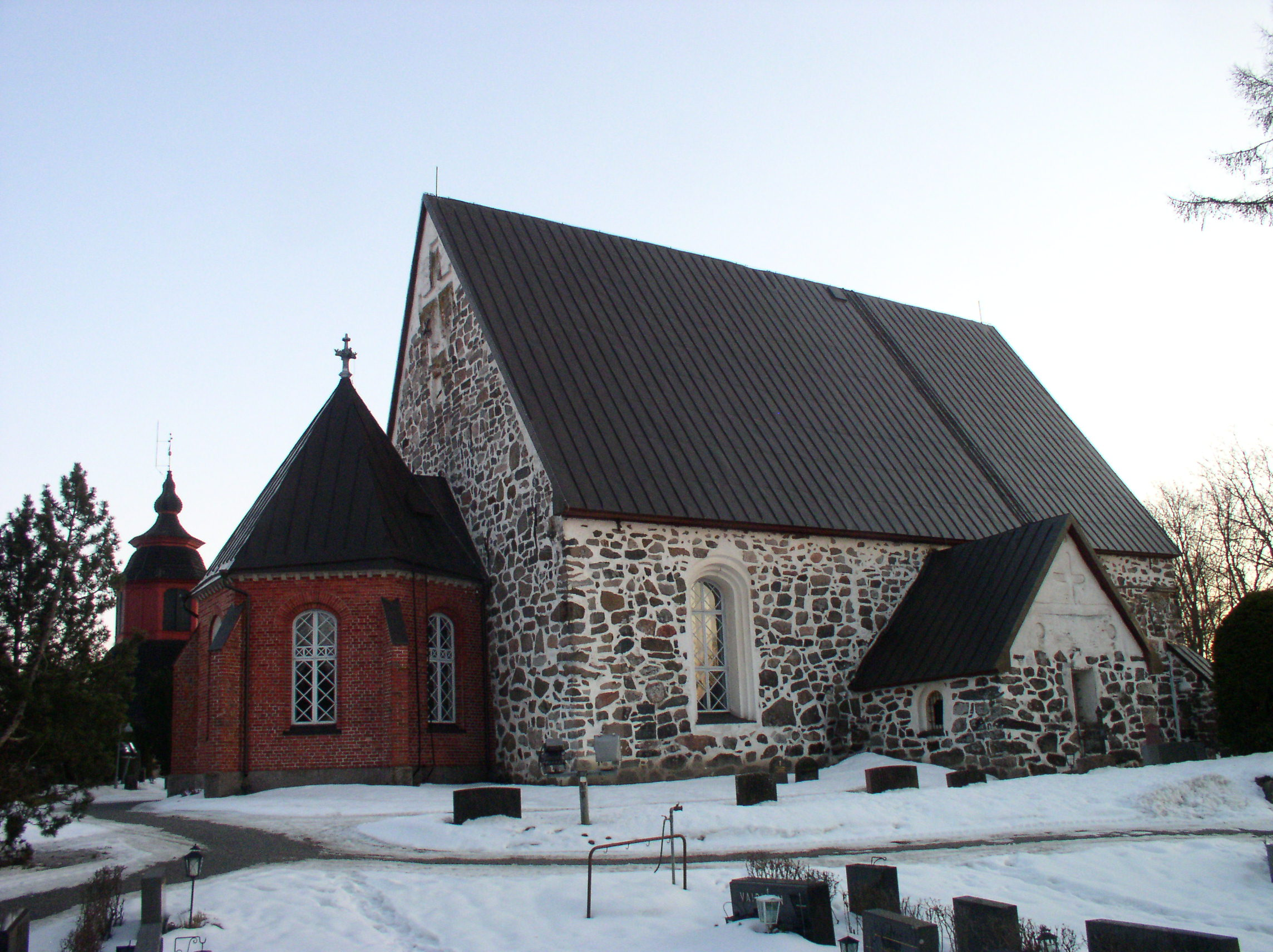 Lieto church in Lieto, Finland. The church is medieval, choir build 1902.